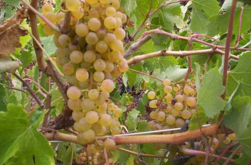 Palomino/Listan Blanco grapes growing in the Spanish wine region of the Canary Islands.